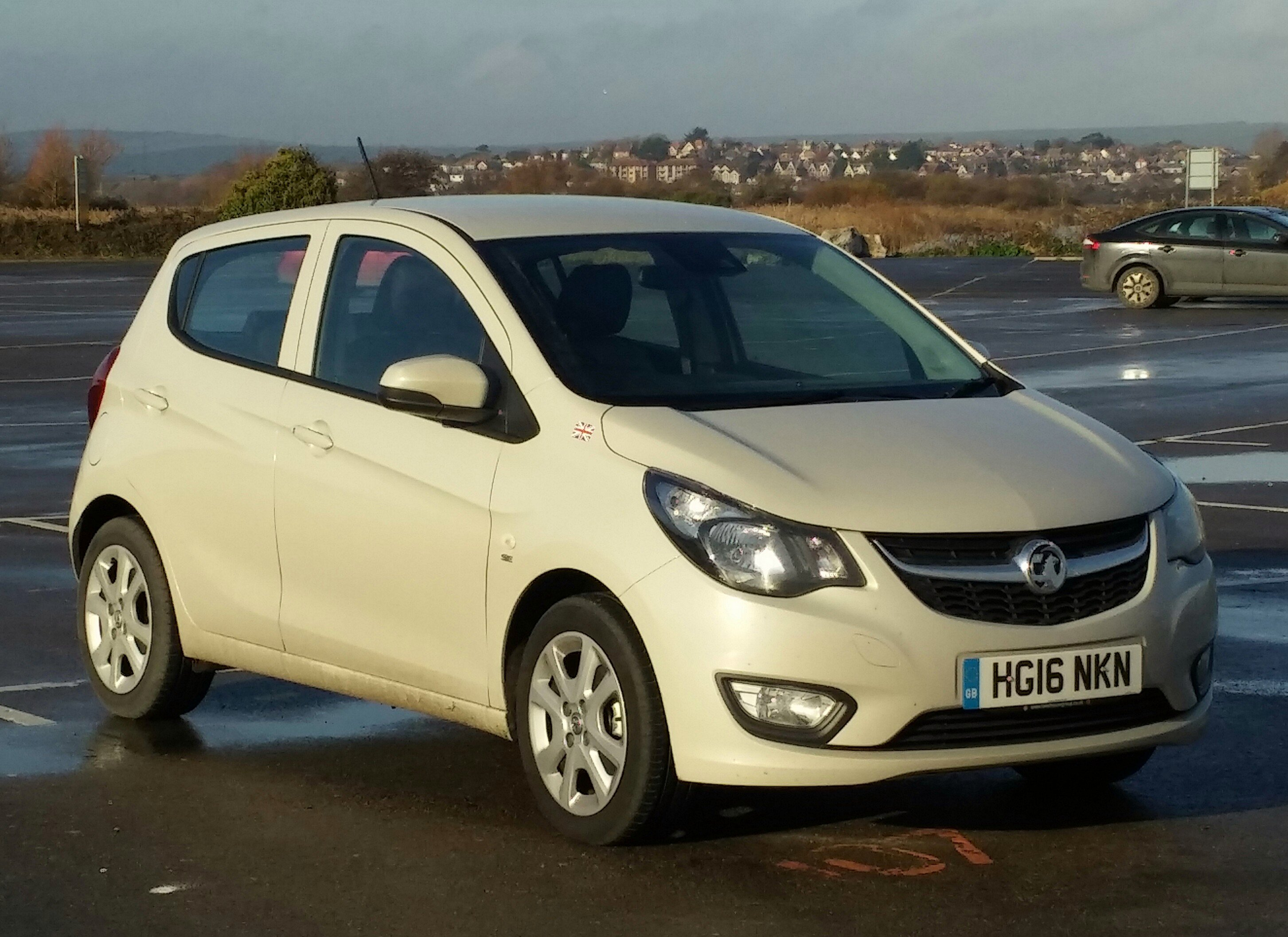 A name from the past. Applied to the Opel Carl for the UK market.